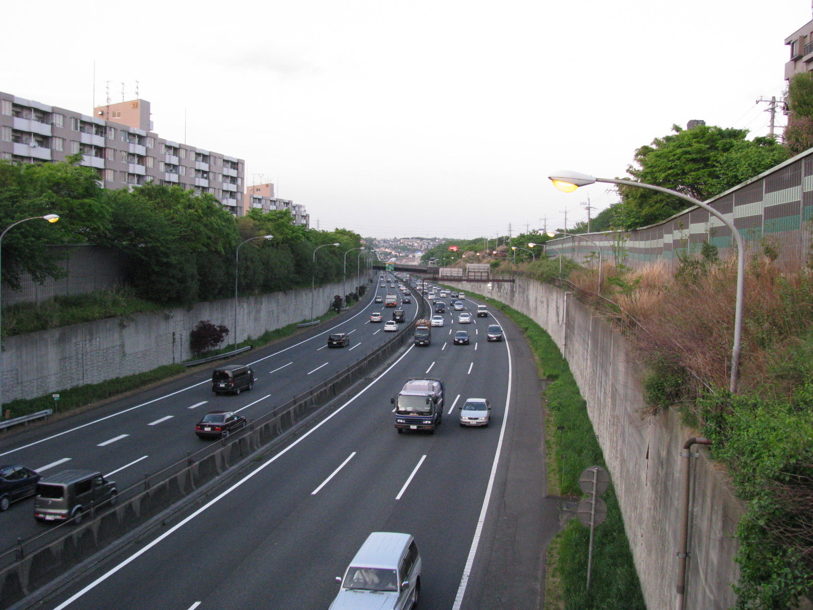 The Yokohama Shindo (Yokohama bypass) of National Route 1, located in Hodogaya-ku, Yokohama, Kanagawa, Japan.